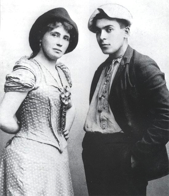 Photo of norwegian bohemians: painter Oda Krohg and friend Jappe Nilssen